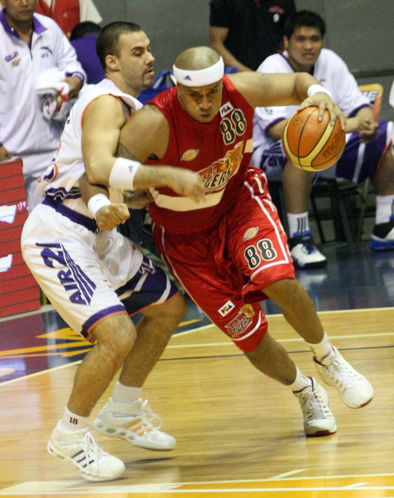 Asi Taulava